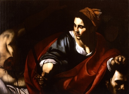 Judith with the Head of Holoferneslabel QS:Les,"Judith con la cabeza de Holofernes" label QS:Len,"Judith with the Head of Holofernes"